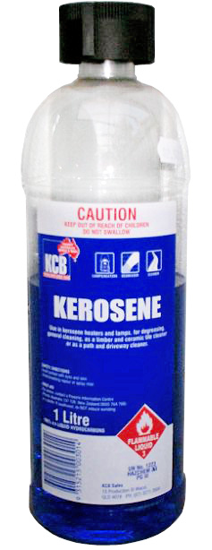 Kerosene, Photograph taken by myself, September 30, 2007.